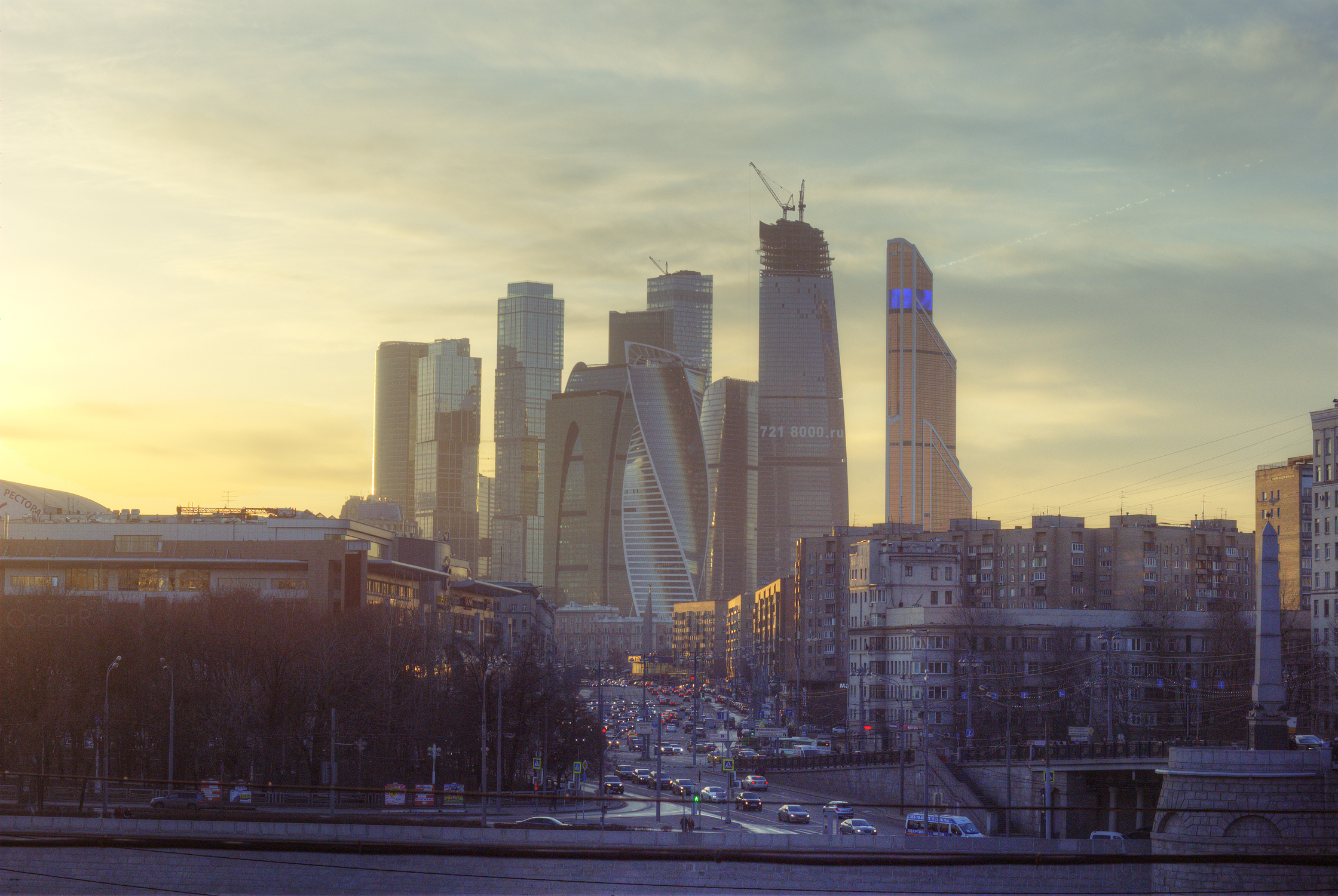 International Business Center, Moscow